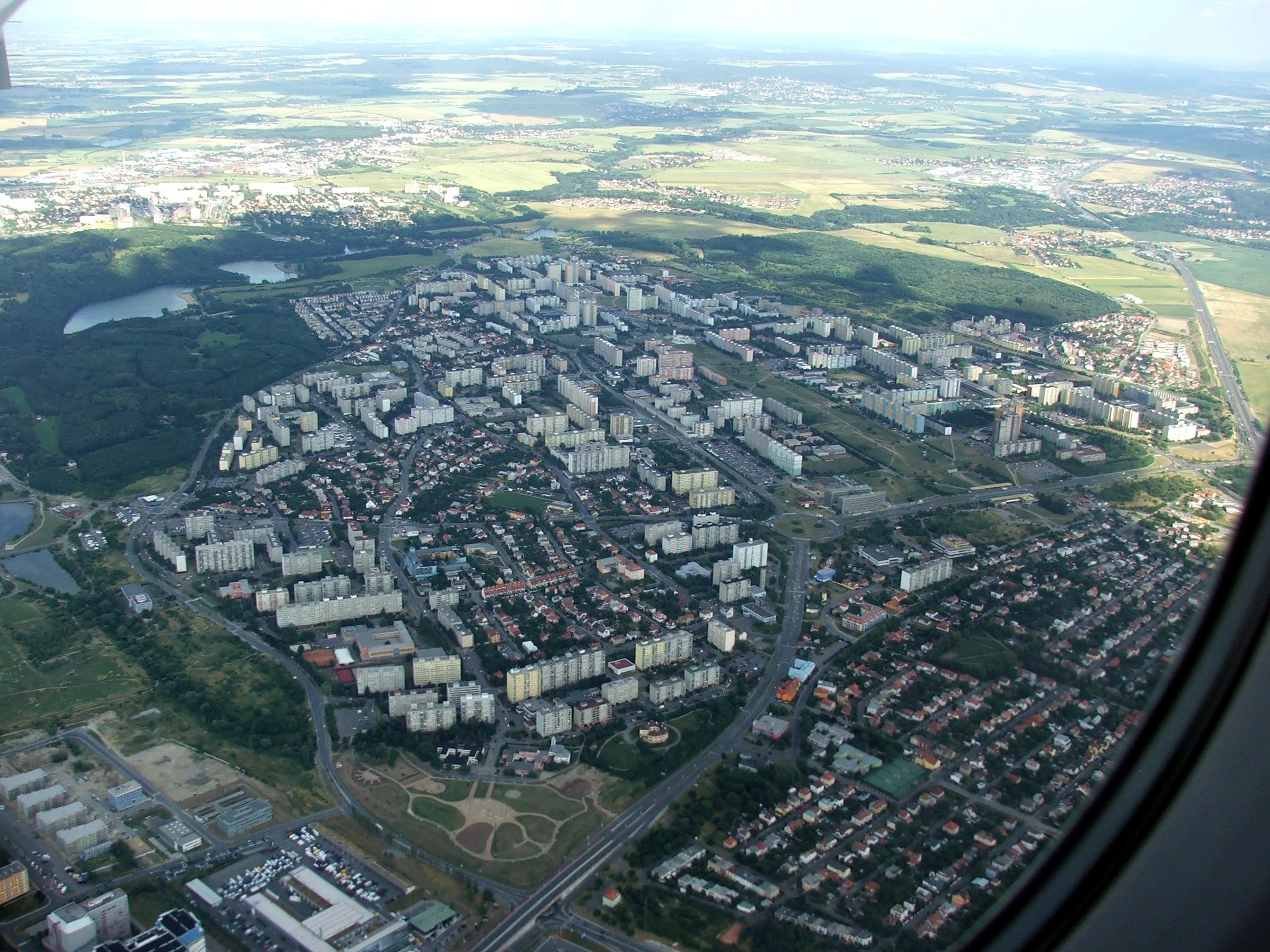 Aerial view of southern suburbs of Prague (Háje, Opatov, Chodov), one of the Prague's largest housing estates - Jižní Město.